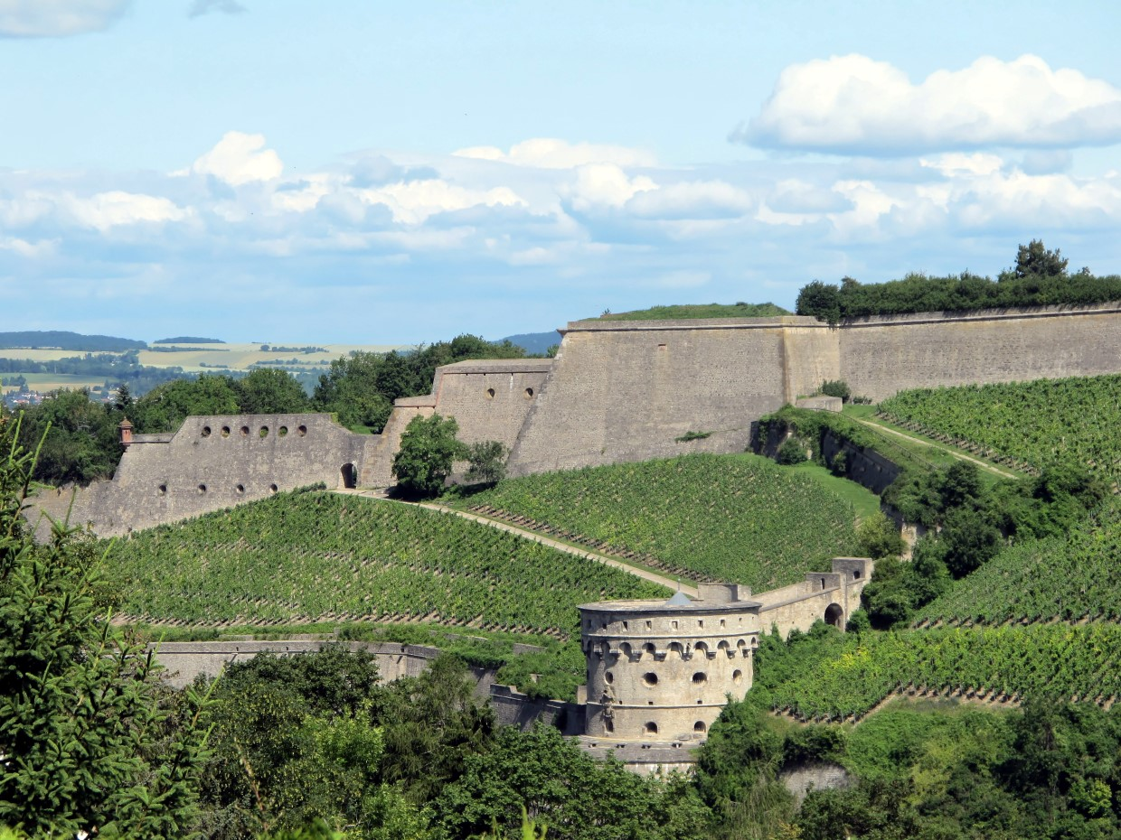 Würzburg, Fortress "Marienberg", Tower "Maschikiluturm", Vineyard "Äußere Leiste"